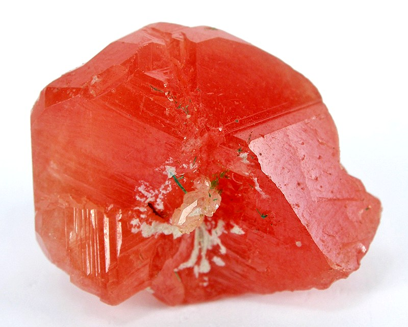 Cerussite, Cuprite Locality: Tsumeb, Otjikoto (Oshikoto) Region, Namibia (Locality at ) Size: thumbnail, 2.0 x 1.6 x 0.8 cm Cerussite (included by Chalcotrichite) Not from the Bruckner Collection, but something I had to get posted soon anyhow...this is a fantastic cerussite crystal from Tsumeb, of a very rare style. The color , blood red, is due to minute iinclusions of cuprite inside. Such cerussite came from only a few pockets, and this is the rarest of styles for the color - a "normal" cerussite twin as opposed to the usual etched, elongated, or melted-type appearance this material usually takes. Complete on both sides, translucent, and just breathtaking for color, this is one of the finest Tsumeb thumbnails I have had the pleasure of handling, for my tastes. It is indeed expensive, no question, but its unique. I had this first perhaps 3 years ago, and was recently able to trade it back from the owner.